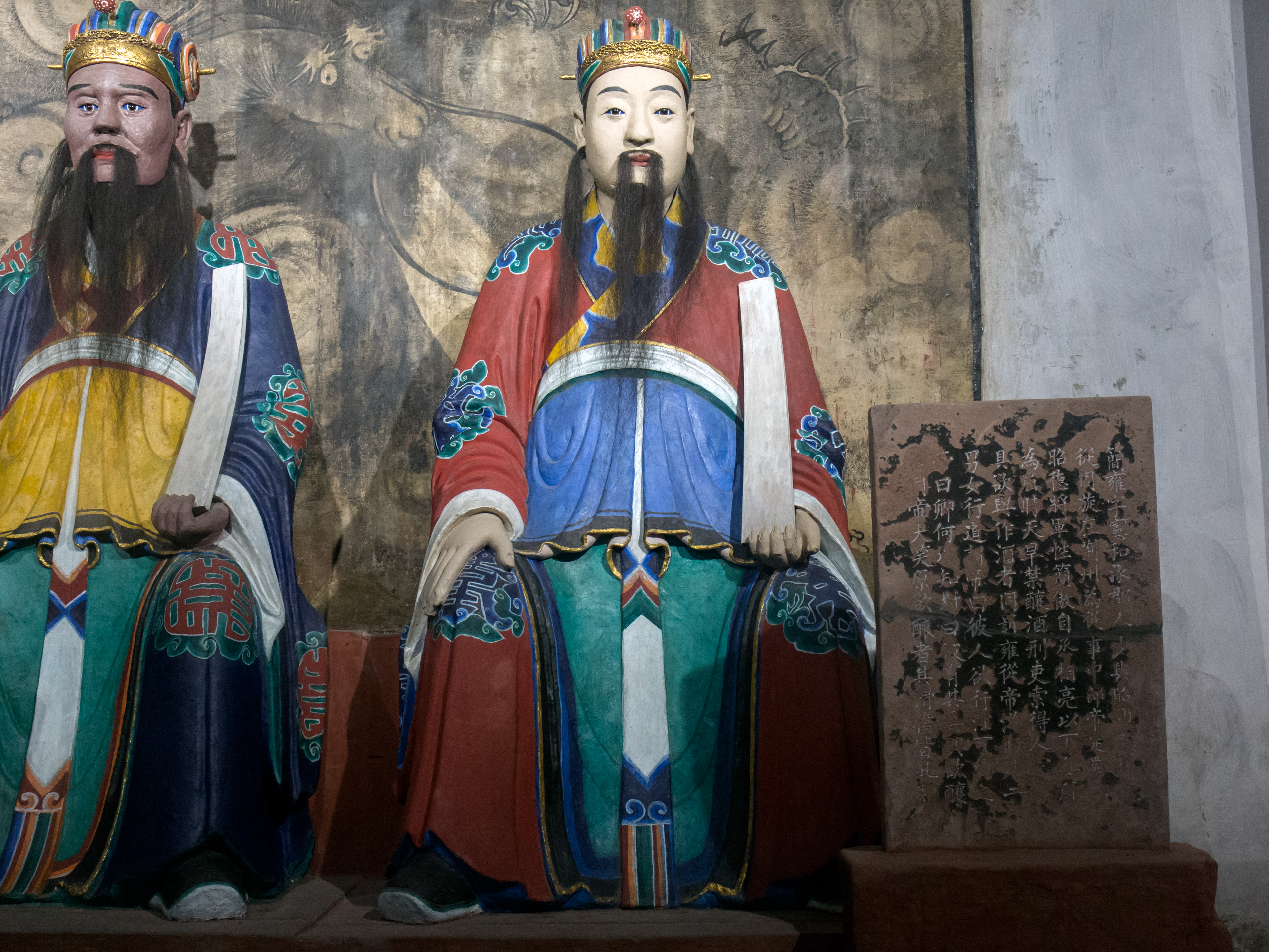 Jian Yong (簡雍)